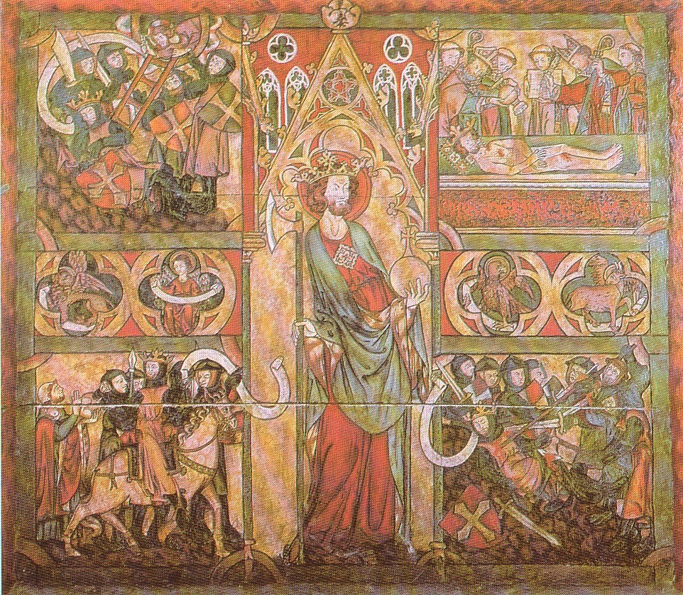 Pictorial wooden image of King Olaf Haraldsson (1015-30) XIV Century